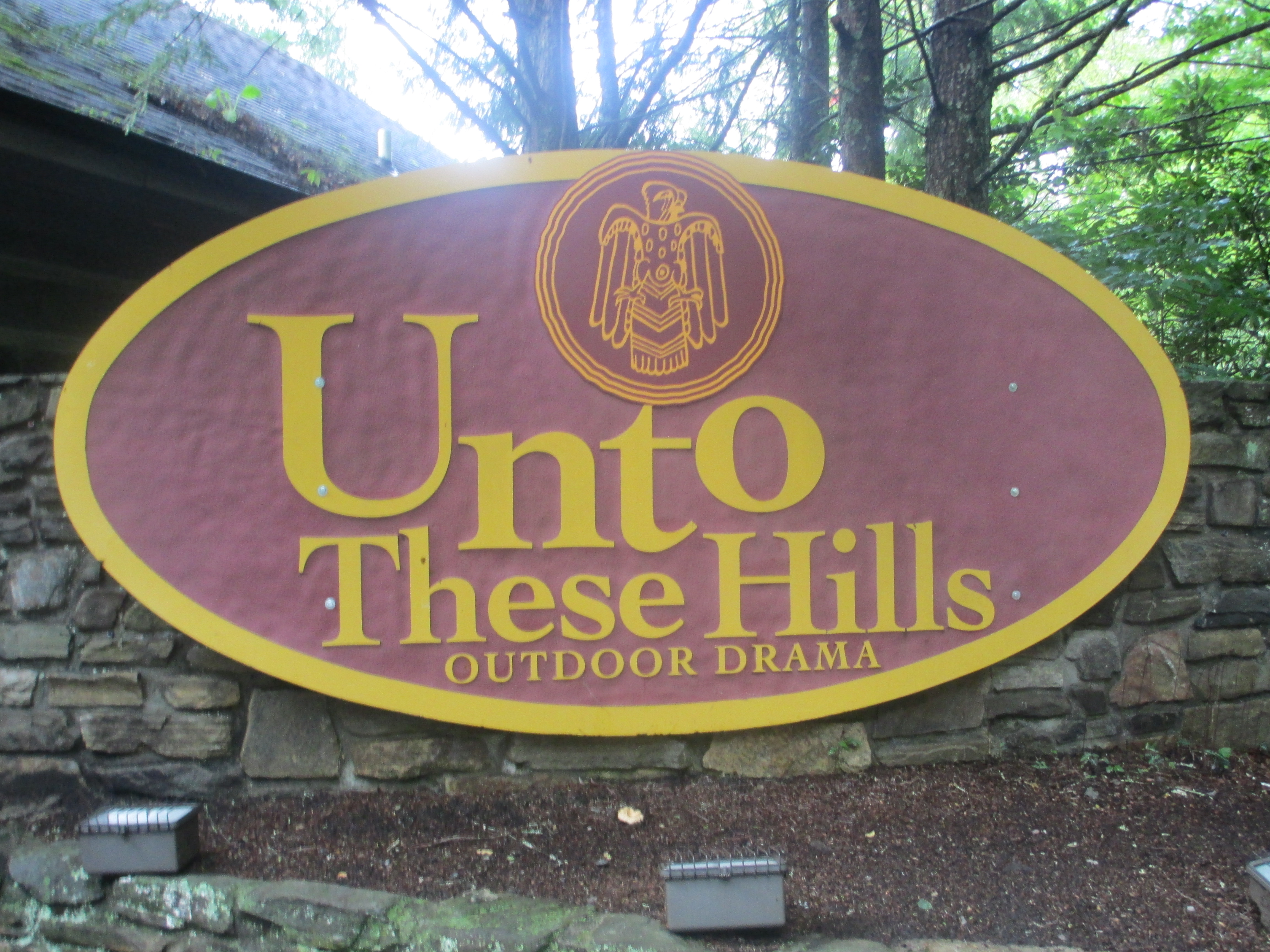 I took photo of "Unto These Hills" sign in Cherokee, NC, with Canon camerra.